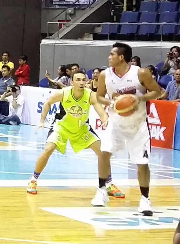 Vic Manuel posts up against Rico Maierhofer during the game between Alaska Aces and the GlobalPort Batang Pier last November 20, 2015